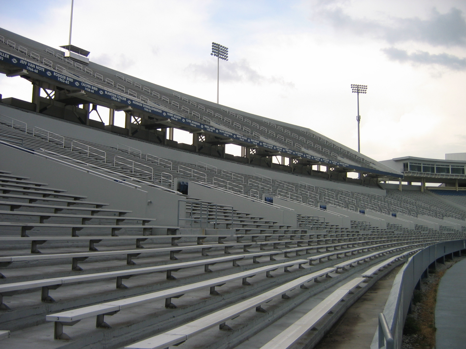 Football & Basketball Facilities U Kentucky Football Stadium